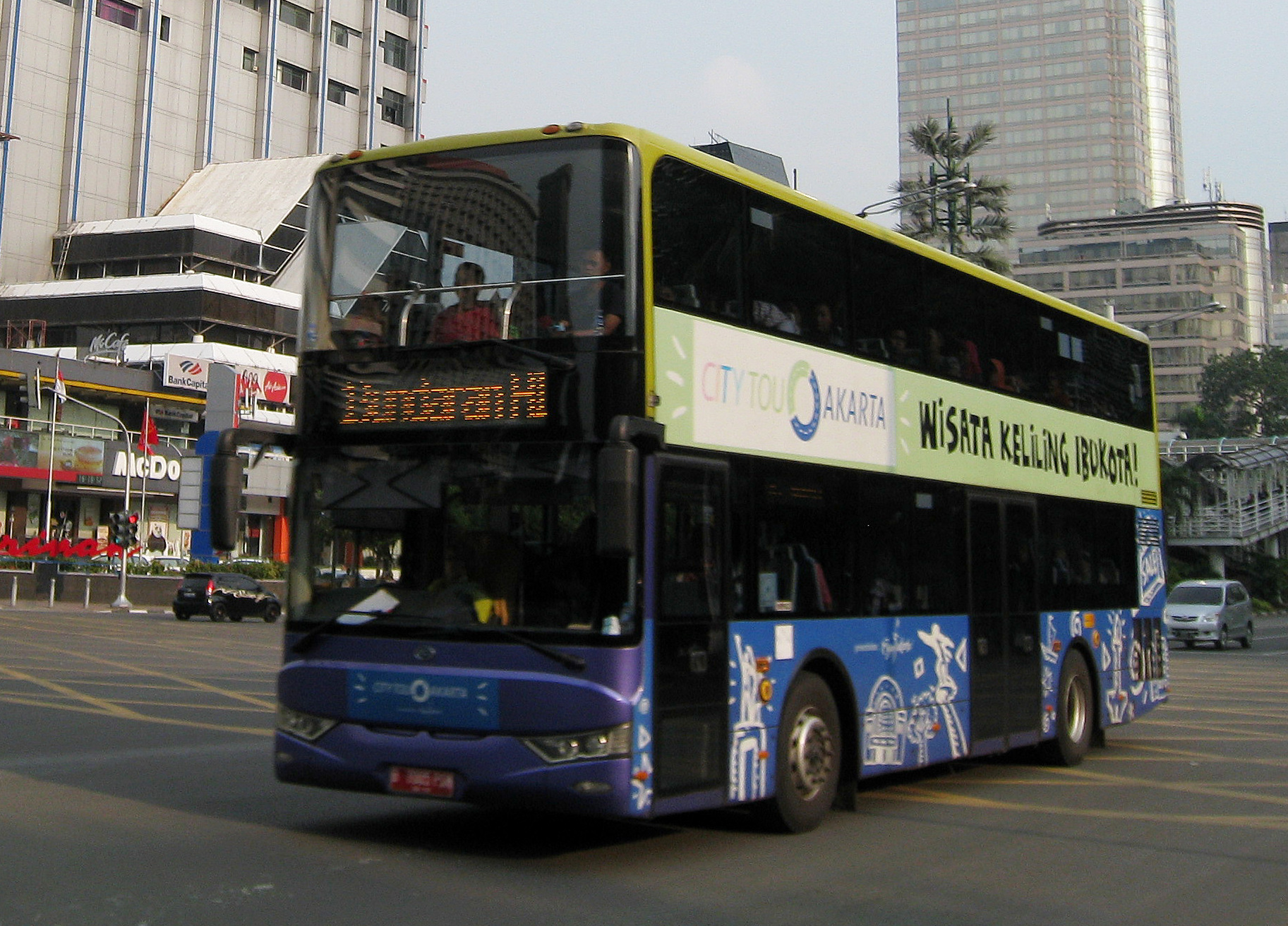 Jakarta doubledecker tourists bus passing in front of Sarinah Thamrin building, MH. Thamrin Avenue, Central Jakarta, Indonesia. Jakarta City Tour bus is free service provided by Jakarta municipal government, passing through Jakarta landmarks and tourism point of interest.